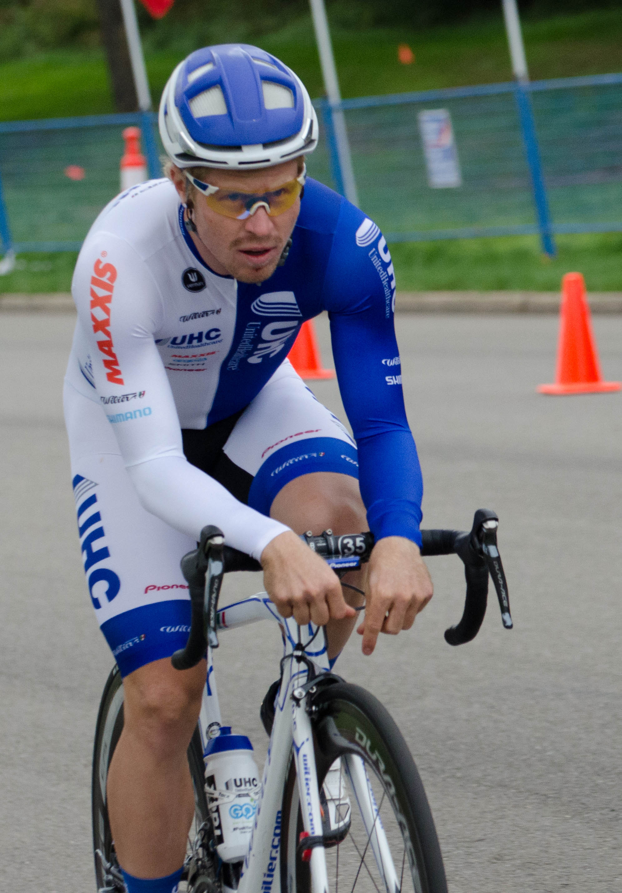 Tanner Putt at the 2016 Tour of Alberta. Must credit Connor Mah if used elsewhere.